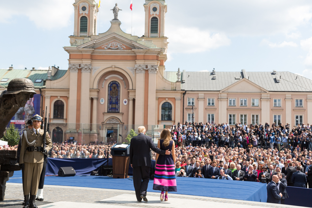 President Donald J. Trump and First Lady Melania Trump | July 6, 2017 (Official White House Photo by Shealah Craighead)